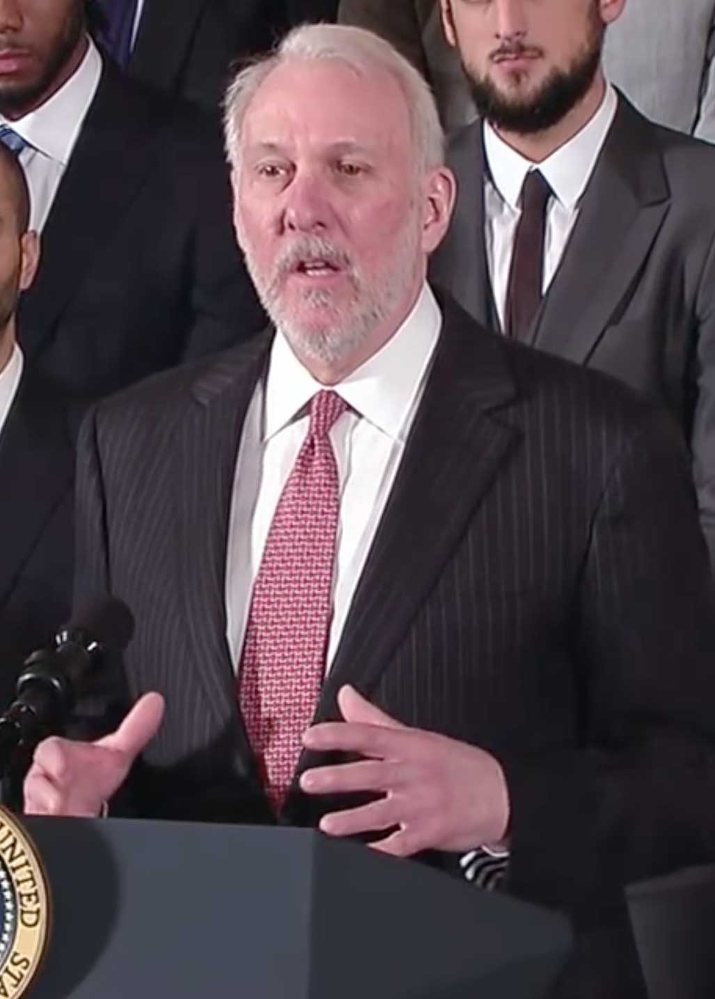 San Antonio Spurs head coach Gregg Popovich speaks with President Barack Obama at the ceremony honoring the 2014 NBA Champions in the East Room of the White House, January 12, 2015